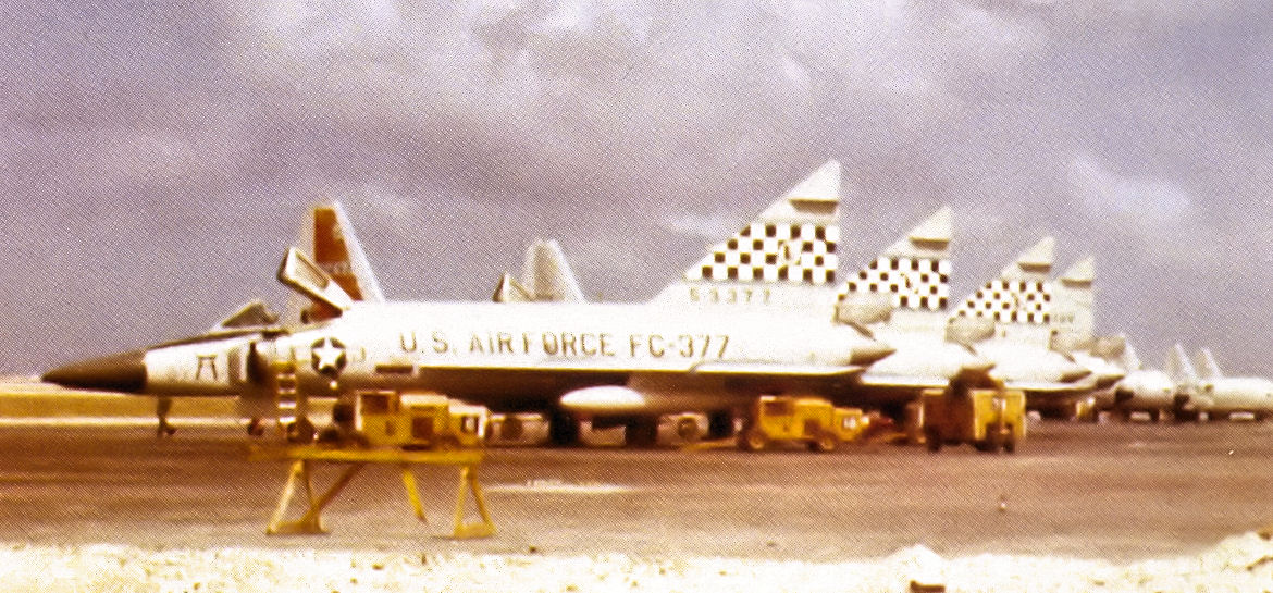 16th Fighter-Interceptor Squadron Convair F-102A-41-CO Delta Dagger 55-3377, Naha AB, Okinawa, 1964.